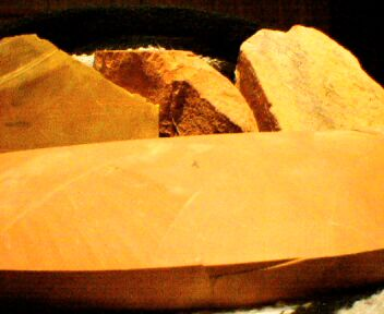 Made with my USB Camera